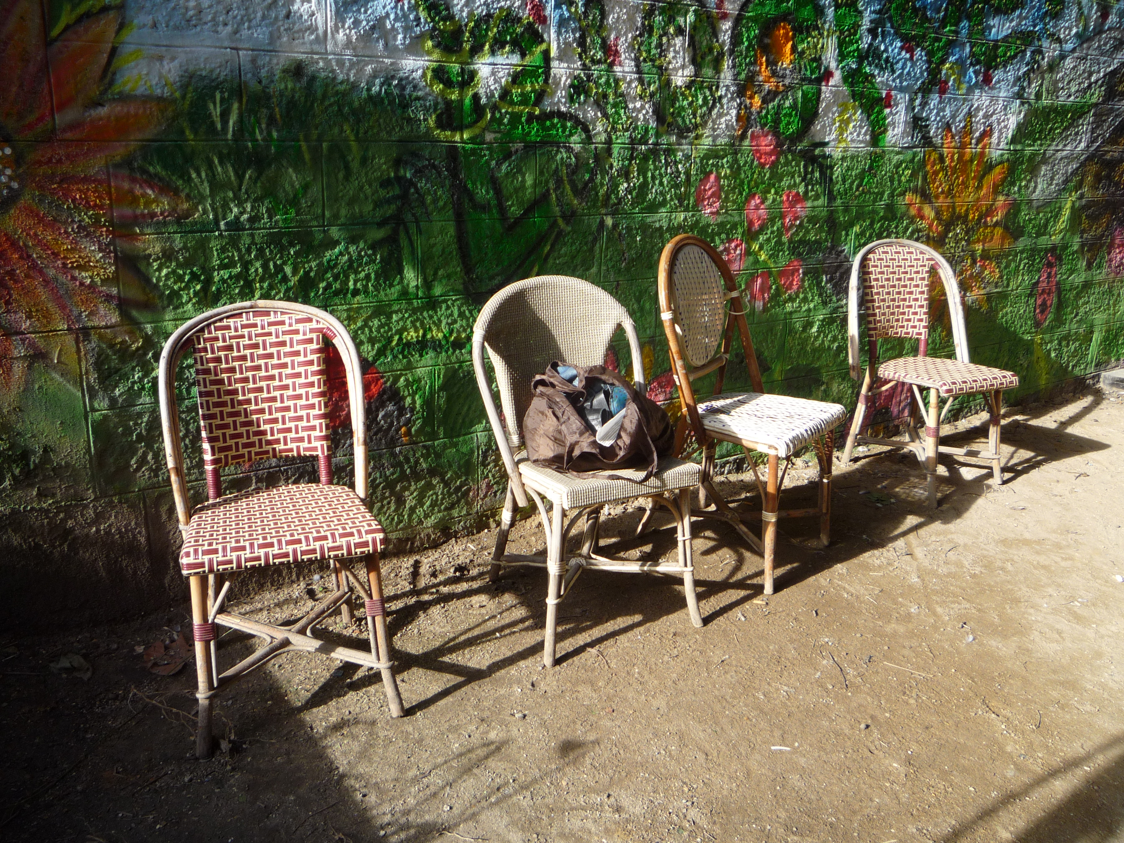 Recently vacated chairs on a sunny spring day. Jardins du Ruisseau, 18th arrondissement of Paris.